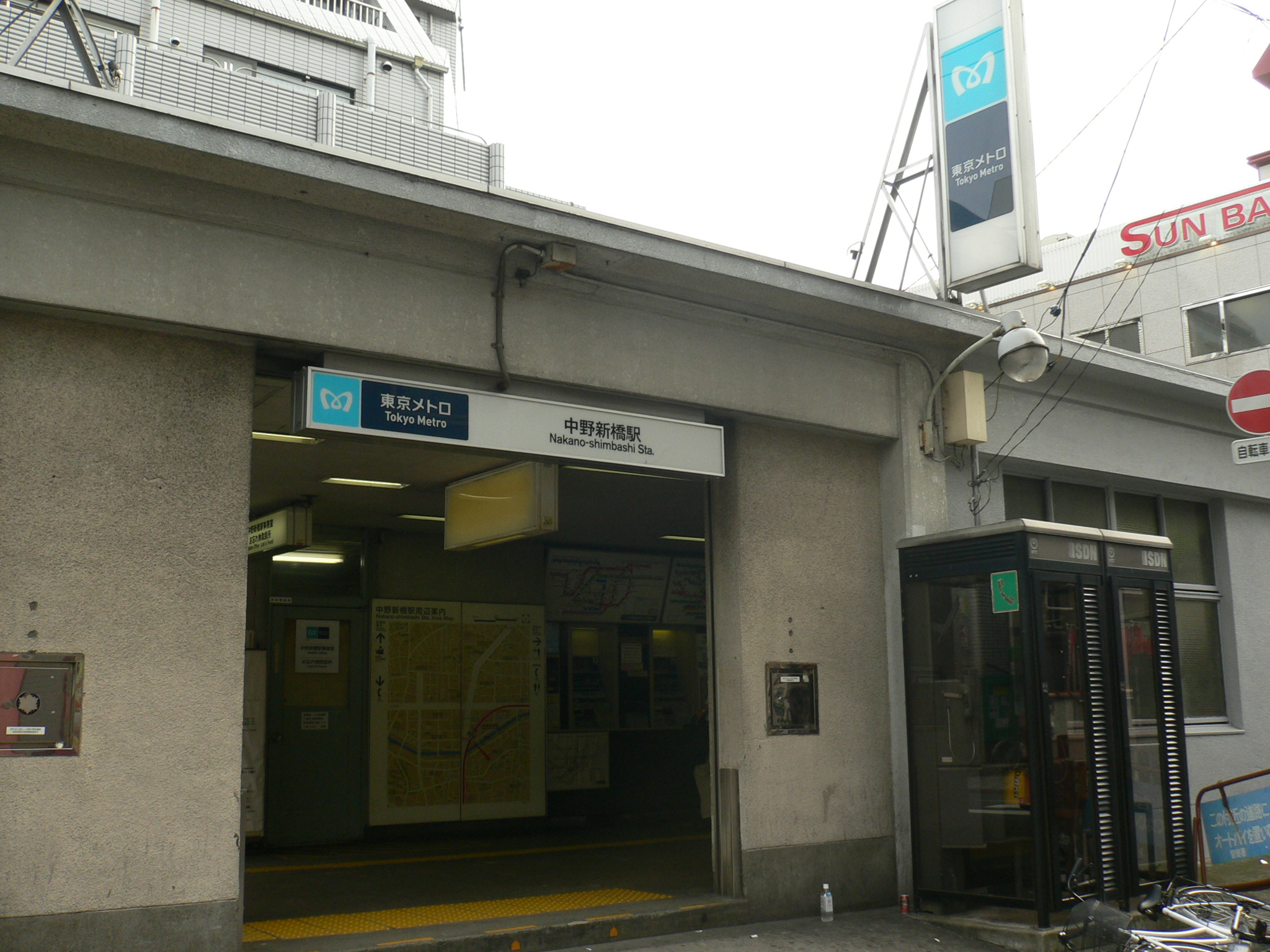 The entrance to Nakano-shimbashi Station in Nakano Ward, Tokyo